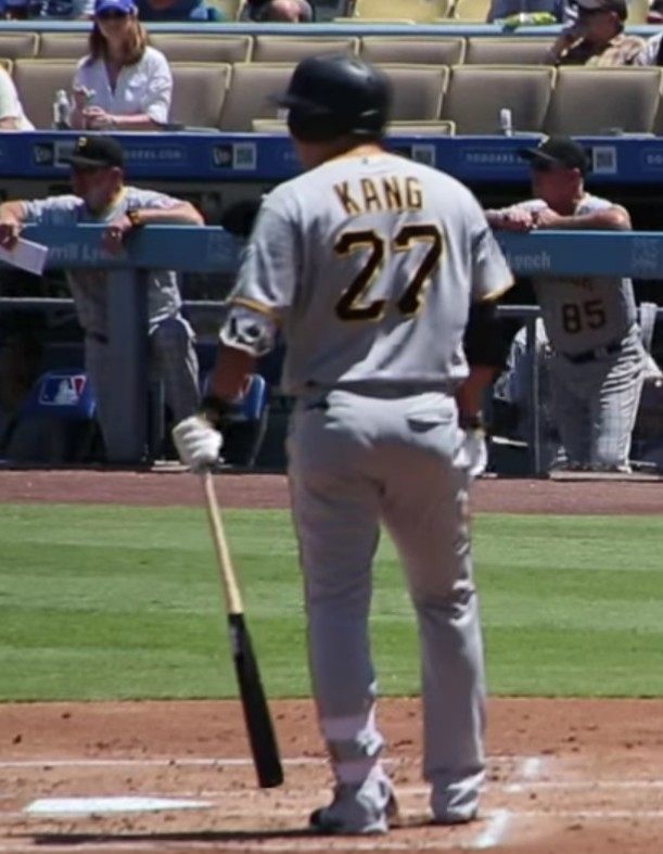 Jung-ho Kang hitting in a game